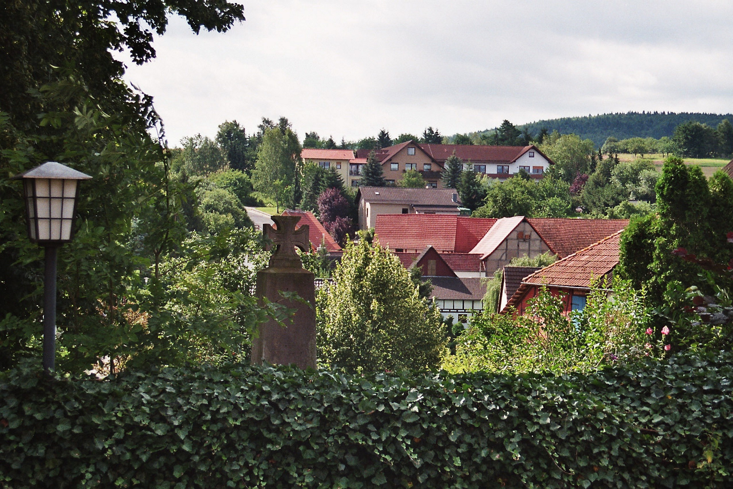 Hermannrode (Neu-Eichenberg), villagescape